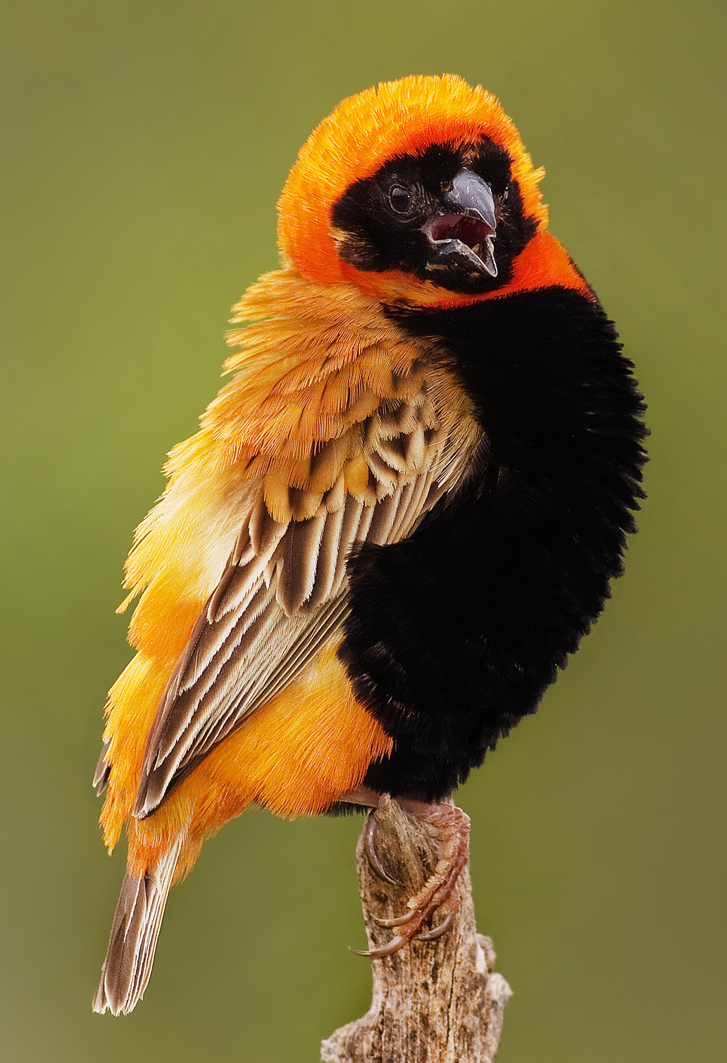 Southern Red Bishop (Euplectes orix) at the Bird Walk (Walk-in Aviary), Canberra, Australian Capital Territory, Australia